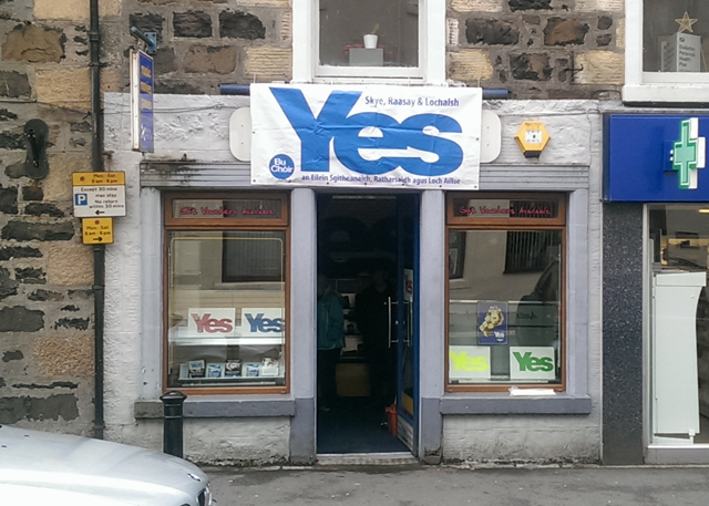 Yes Scotland 2014